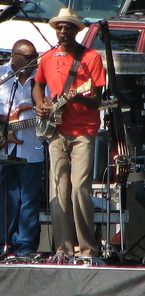 Image of blues artist Keb' Mo' from 2006.